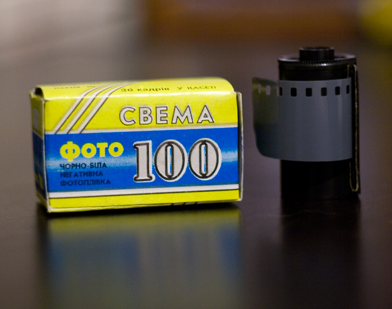 svema 2009 g.